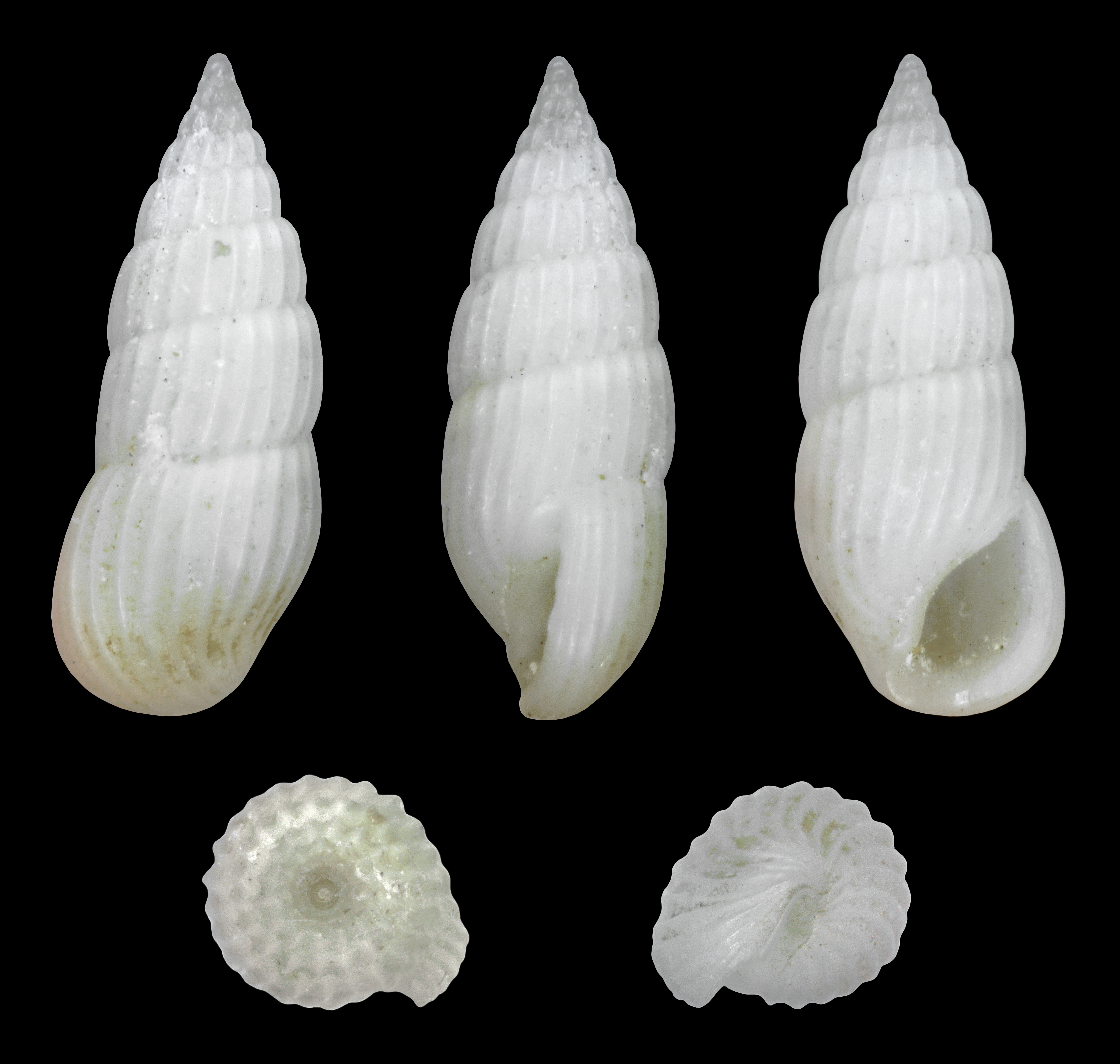 Length 0.6 cm; Originating from Cebu, Philippines; Shell of own collection, therefore not geocoded. Dorsal, lateral (right side), ventral, back, and front view.